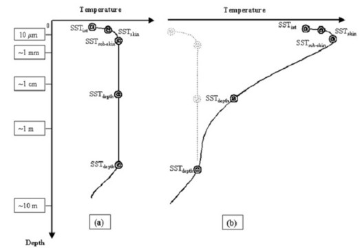 This image shows temperature changes in the ocean per depth (a) at night and (b) during the day